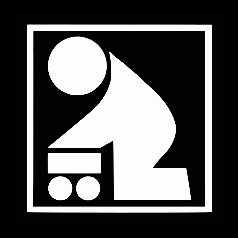 Kaden sign colored and redesigned by me.